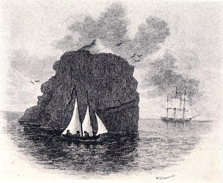 Lt. Basil Hall's landing party on Rockall, 8th September 1811; HMS Endymion beyond